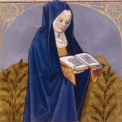 Penelope, wife of Odysseus.